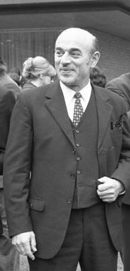 Title: Bonn, Bundeskanzler Brandt empfängt Schauspieler People in the image: Brauner, Artur Factual corrections and alternative descriptions are encouraged separately from the original description. Additionally errors can be reported at this page to inform the Bundesarchiv. Original historic description: Bundeskanzler Willy Brandt empfängt Filmschauspieler